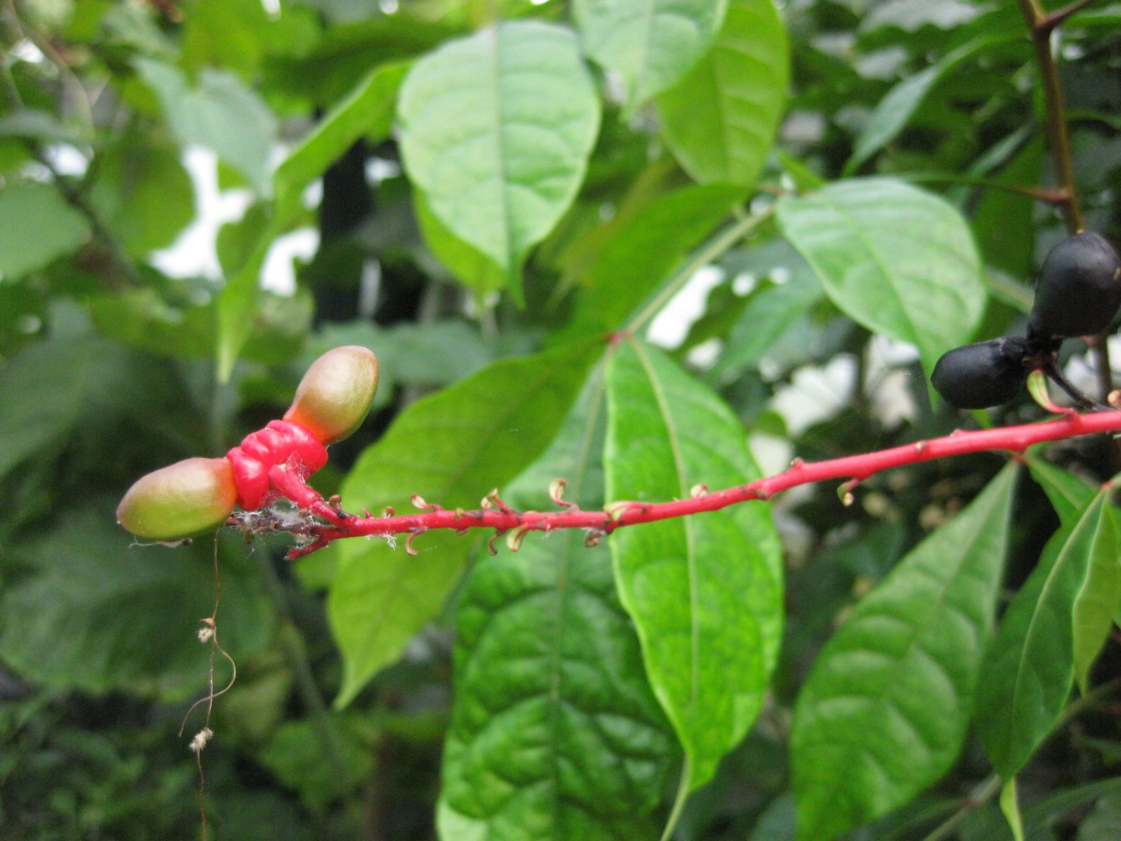 Photographed at Huntington Gardens (Los Angeles, California) in August